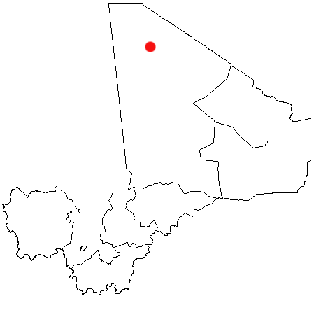 Taoudenni, Mali Location Map